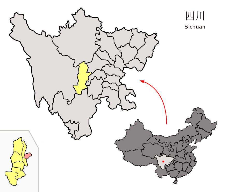 Location of Mingshan County (pink) and Ya'an Prefecture (yellow) within Sichuan province of China Map drawn in october 2007 using various sources, mainly : Sichuan province administrative regions GIS data: 1:1M, County level, 1990 Sichuan Counties map from